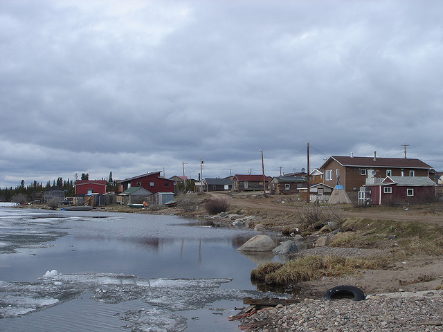 Deline, Northwest Territories, Canada